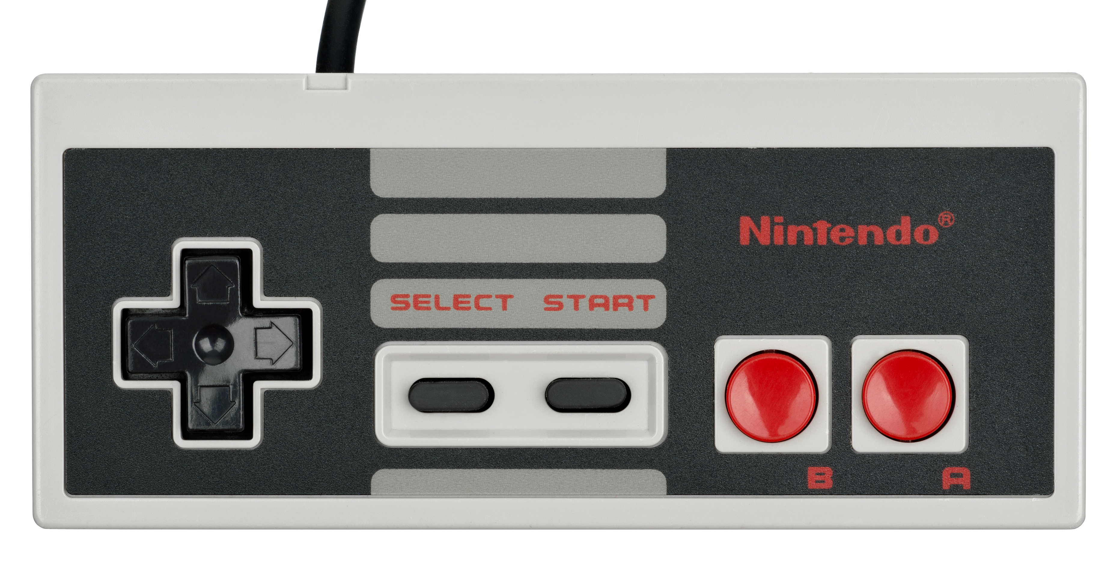 The Nintendo Entertainment System (NES) controller. The American version of the Japanese Famicom, the system was given a remodel for the non-Japanese markets.